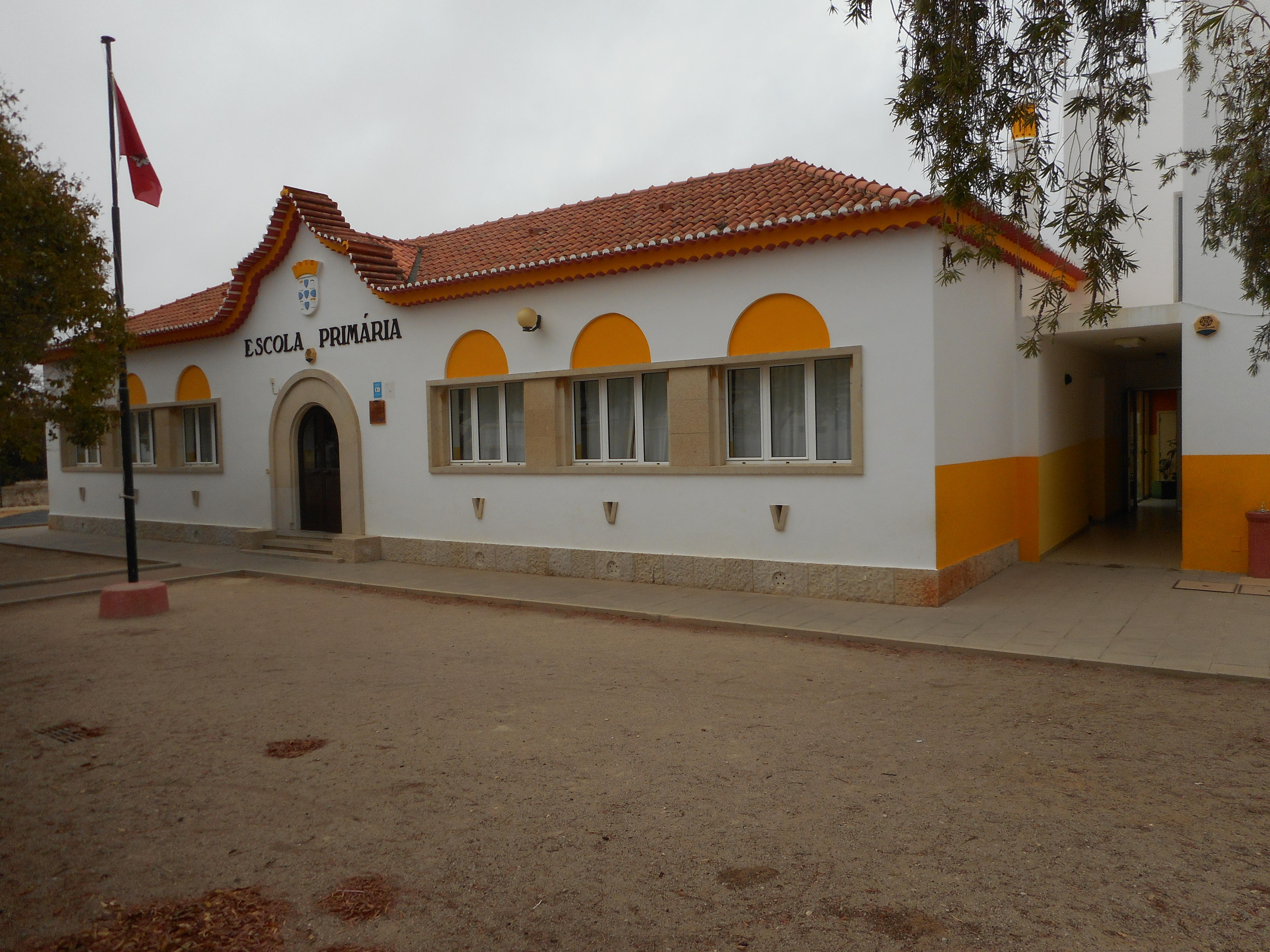 The primary school located in the Rua João de Deus within the town of Tunes, Silves, Algarve, Portugal.